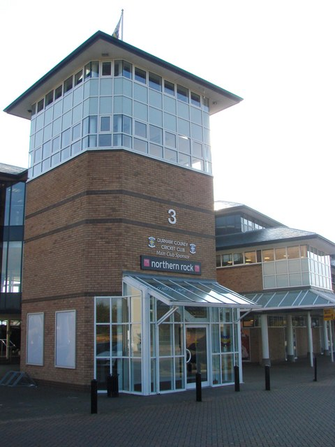 An entrance to the Riverside County Cricket Ground, Chester-le-Street, England